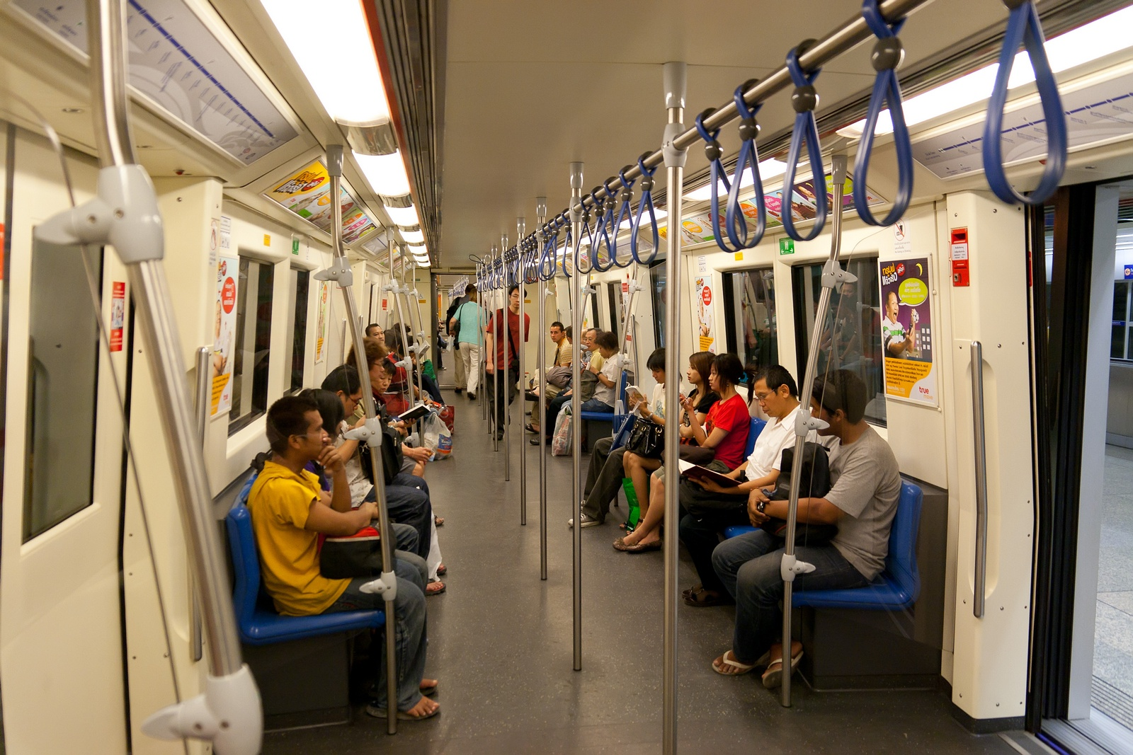 Interior of Bangkok MRT train. Picture taken at Hua Lampong station.